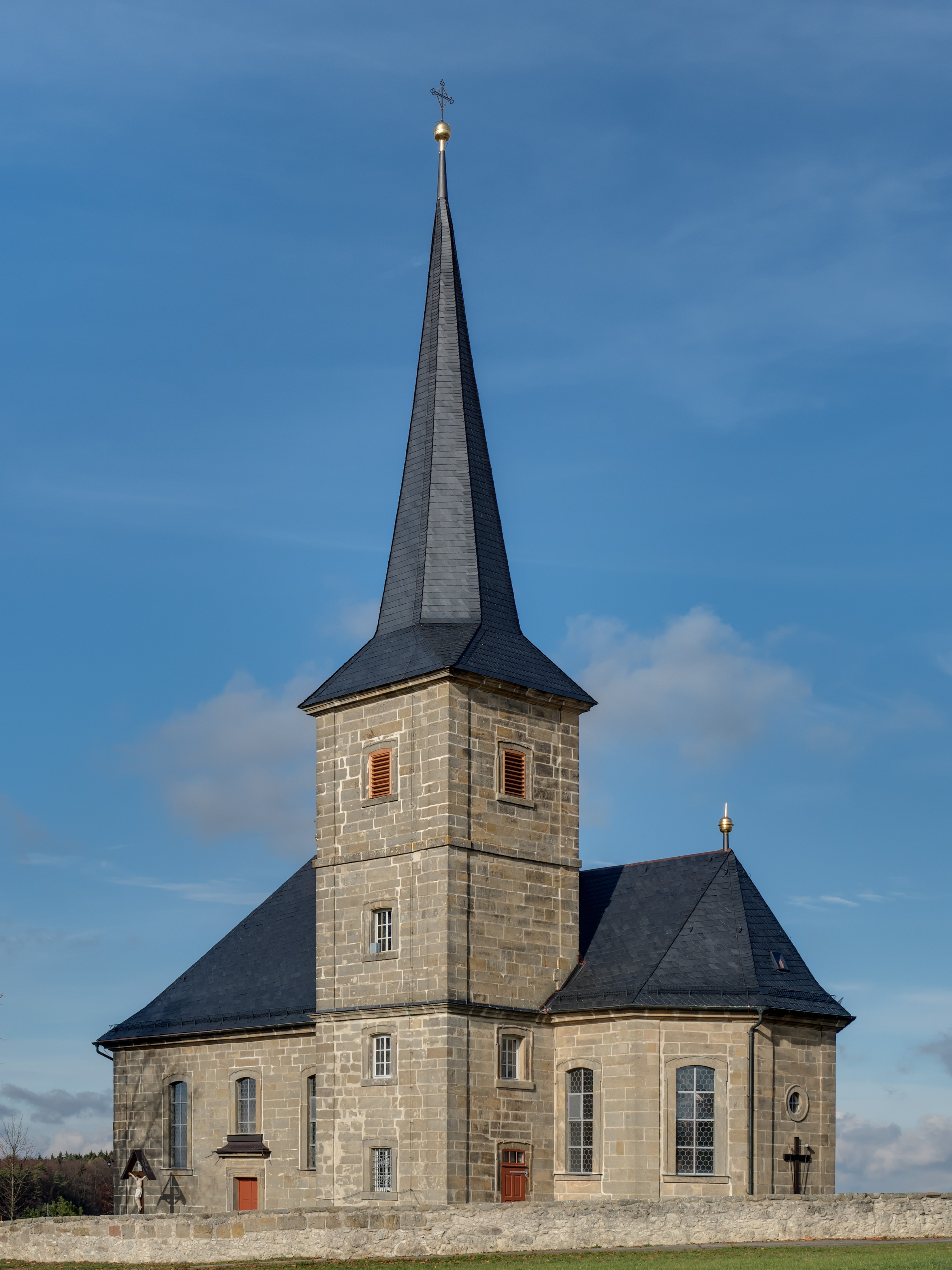 St.Clemens Church in Neudorf bei Weismain in Upper Franconia